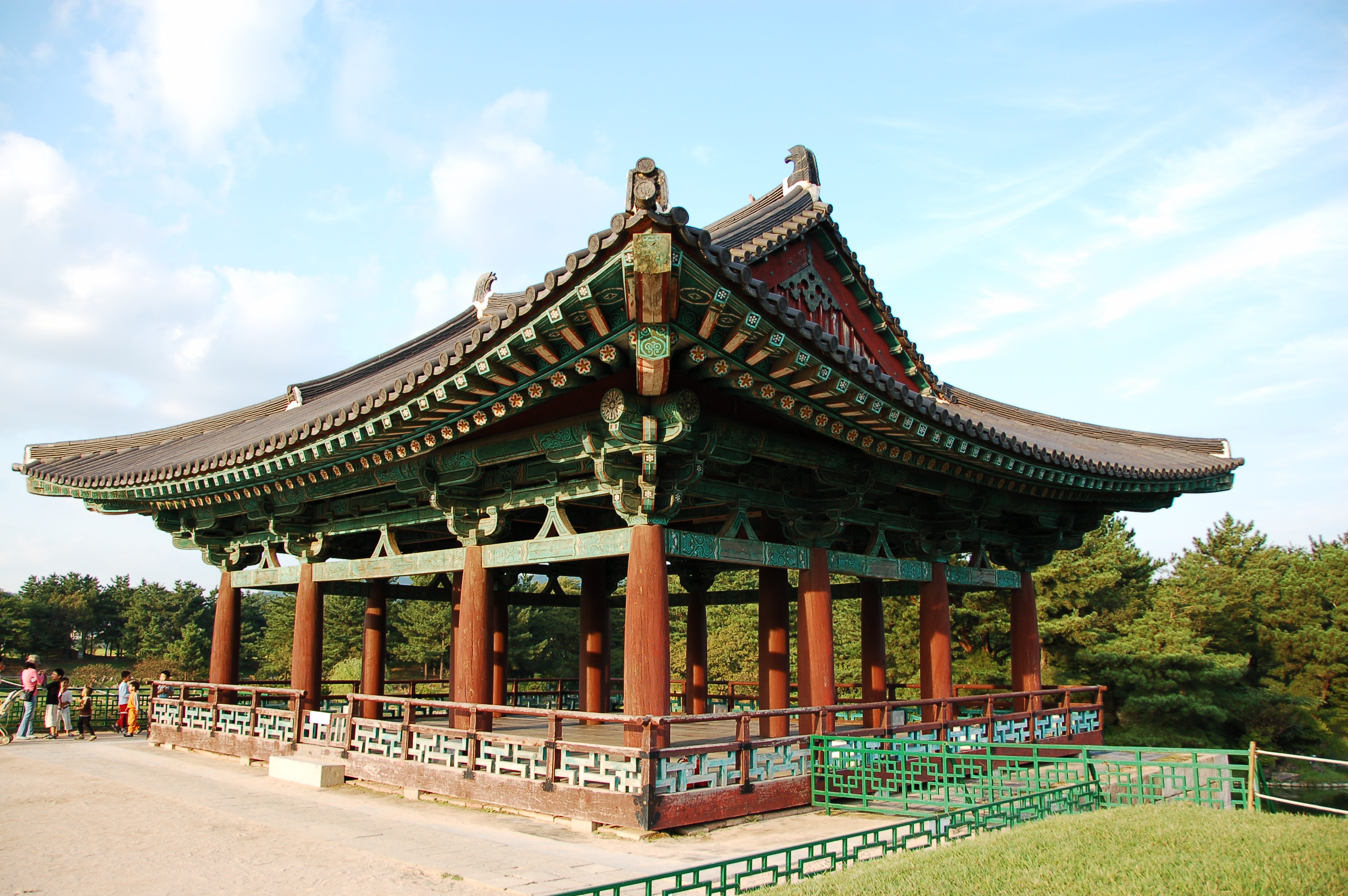 A reconstructed pavilion at Anapji lake, a pleasure garden built after the kingdom of Silla unified most of the Korean Peninsula. Anapji, lake is located in Gyeongju National Park, South Korea. Anapji, is an artificial pond located in Gyeongju National Park, South Korea. Gyeongju was the ancient capital of the Silla kingdom and the pond was constructed by order of King Munmu in 674 CE. Anapji is situated at the northeast edge of the Banwolseong palace site, in central Gyeongju. It contains three small islands.